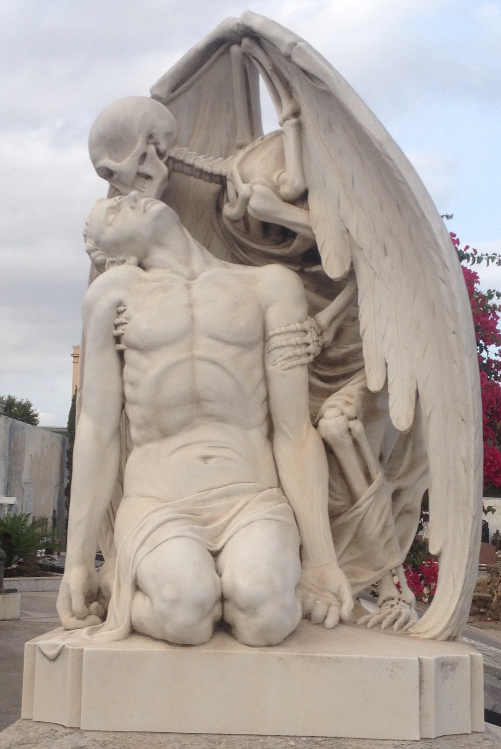 Kiss of Death (Poblenou Cemetery)